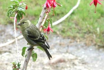 Finch Creator: Claudio Silva. Date: 21 de enero de 2008 (21-01-2008) Place: Los Molles (Chile)